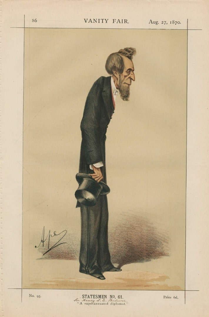 Caricature of Henry Bulwer (1801-1872). Caption read "A superannuated diplomat".